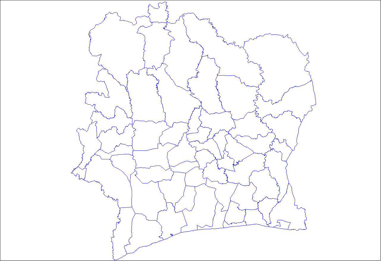 Map of the departments of Côte d'Ivoire (Ivory Coast). Created by Rarelibra 21:15, 10 April 2007 (UTC) for public domain use, using MapInfo Professional v8.5 and various mapping resources.